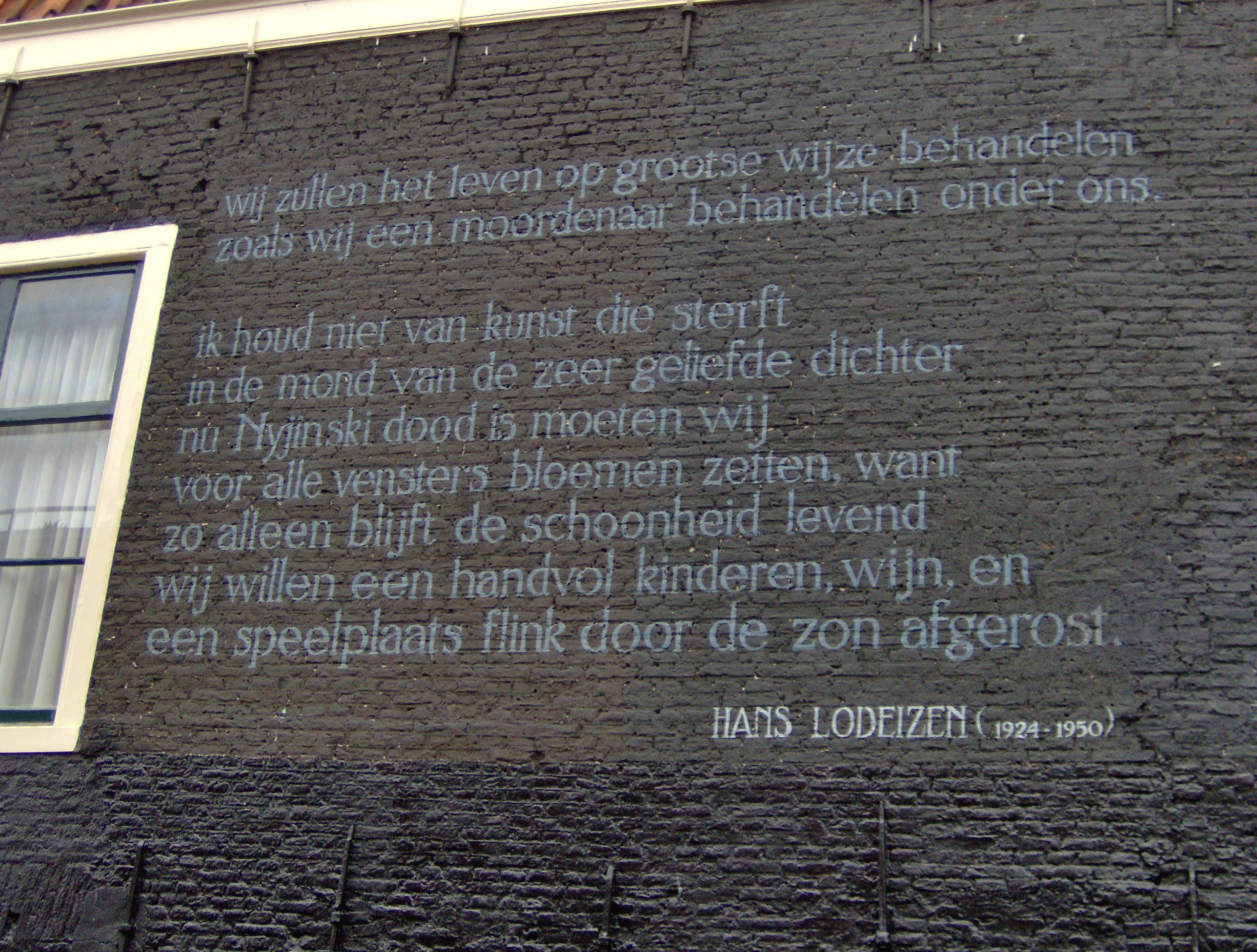 The poet Wij zullen het leven... of the Dutch poet Hans Lodeizen on a wall of the building on the Haarlemmerstraat 78, Leiden, The Netherlands